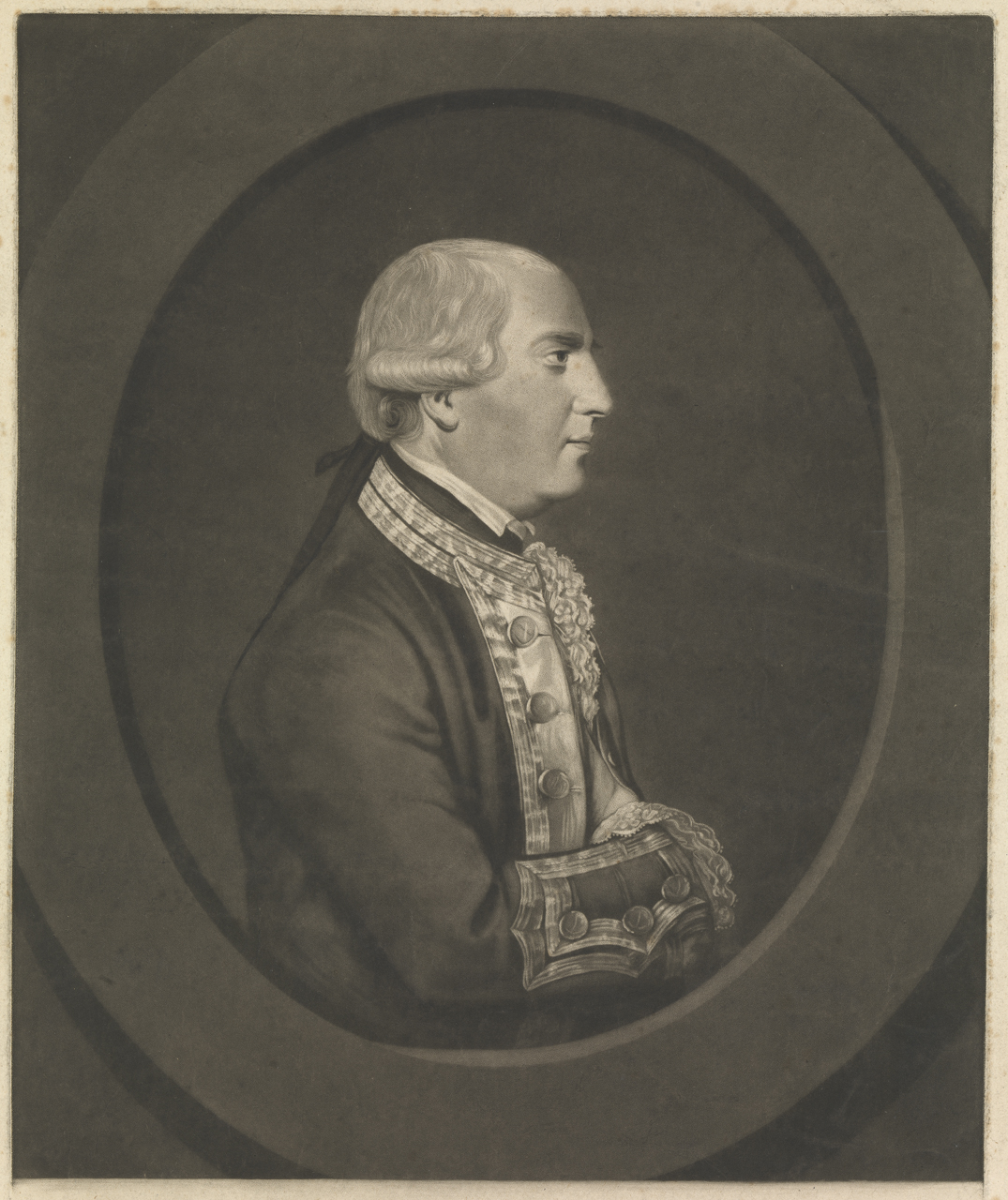 John Elphinston [sic!] (1722-1785) of the Russian Navy (without letters); mezzotint